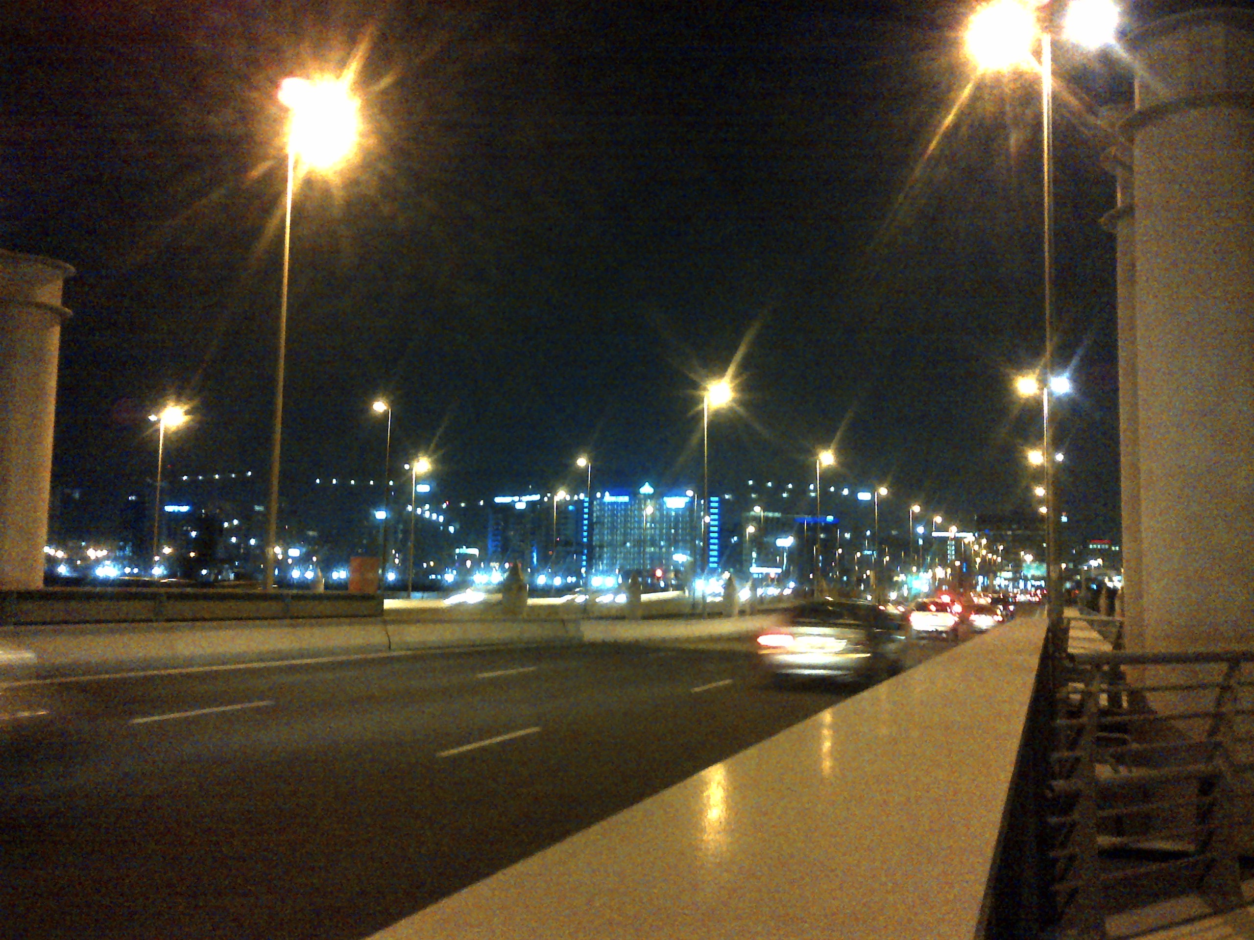 Floating Bridge on an empty Thursday